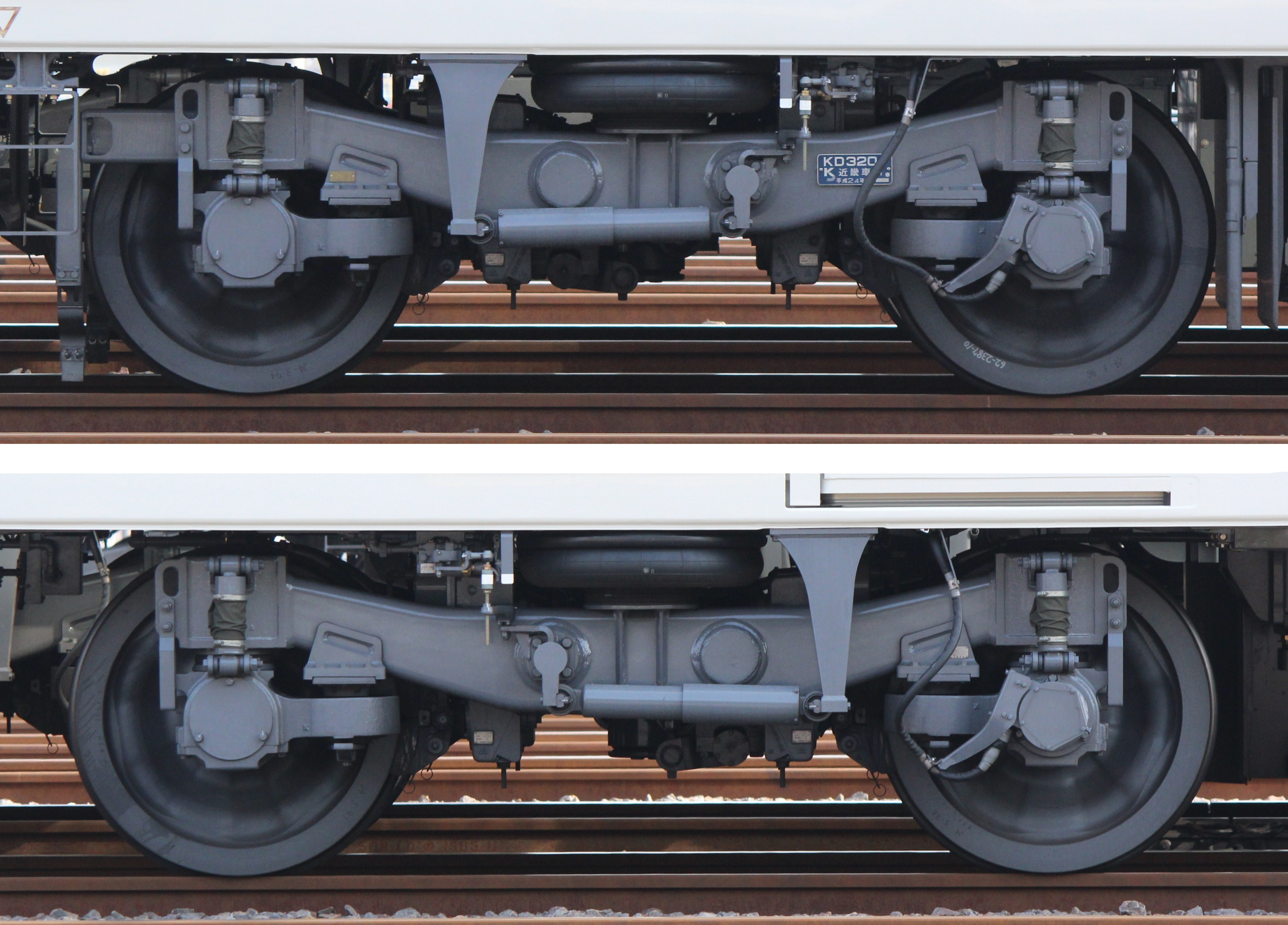 Bogies used on the Kintetsu 50000 series Shimakaze EMU. Top: KD-320 motor bogie; Bottom: KD-320A trailer bogie